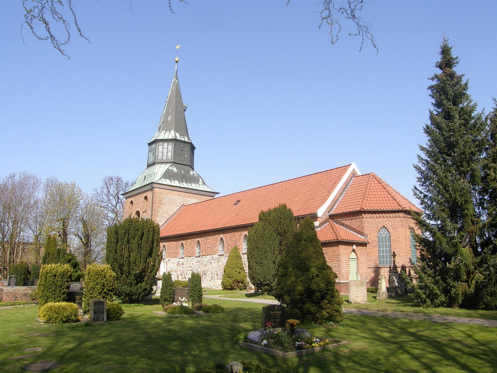 Cuxhaven